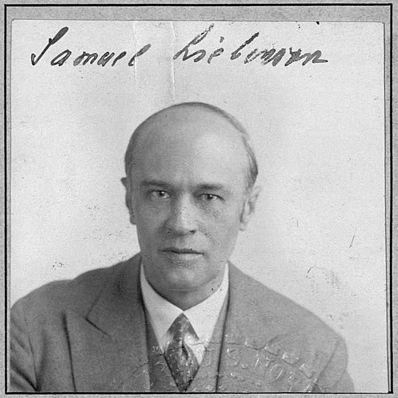 Photograph from Declaration of Intention, Naturalization record for Samuel Lieberson.